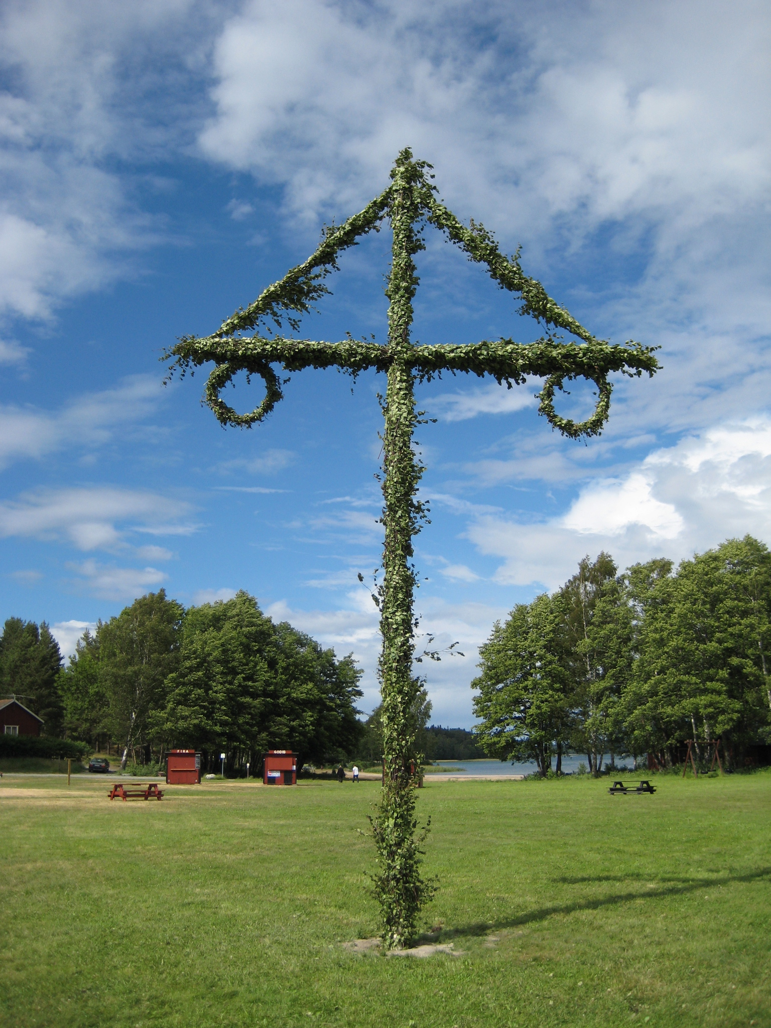 Maypole (midsommarstång) on Gålö, Sweden